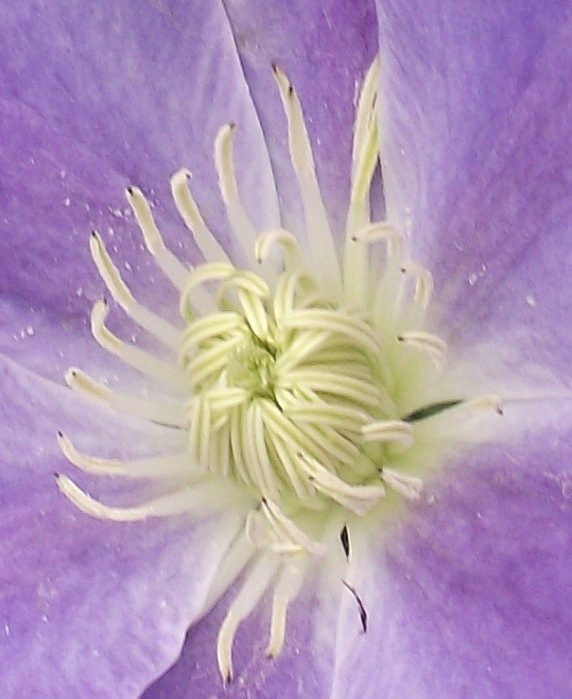 Clematis patens Diana's Delight Evipo026